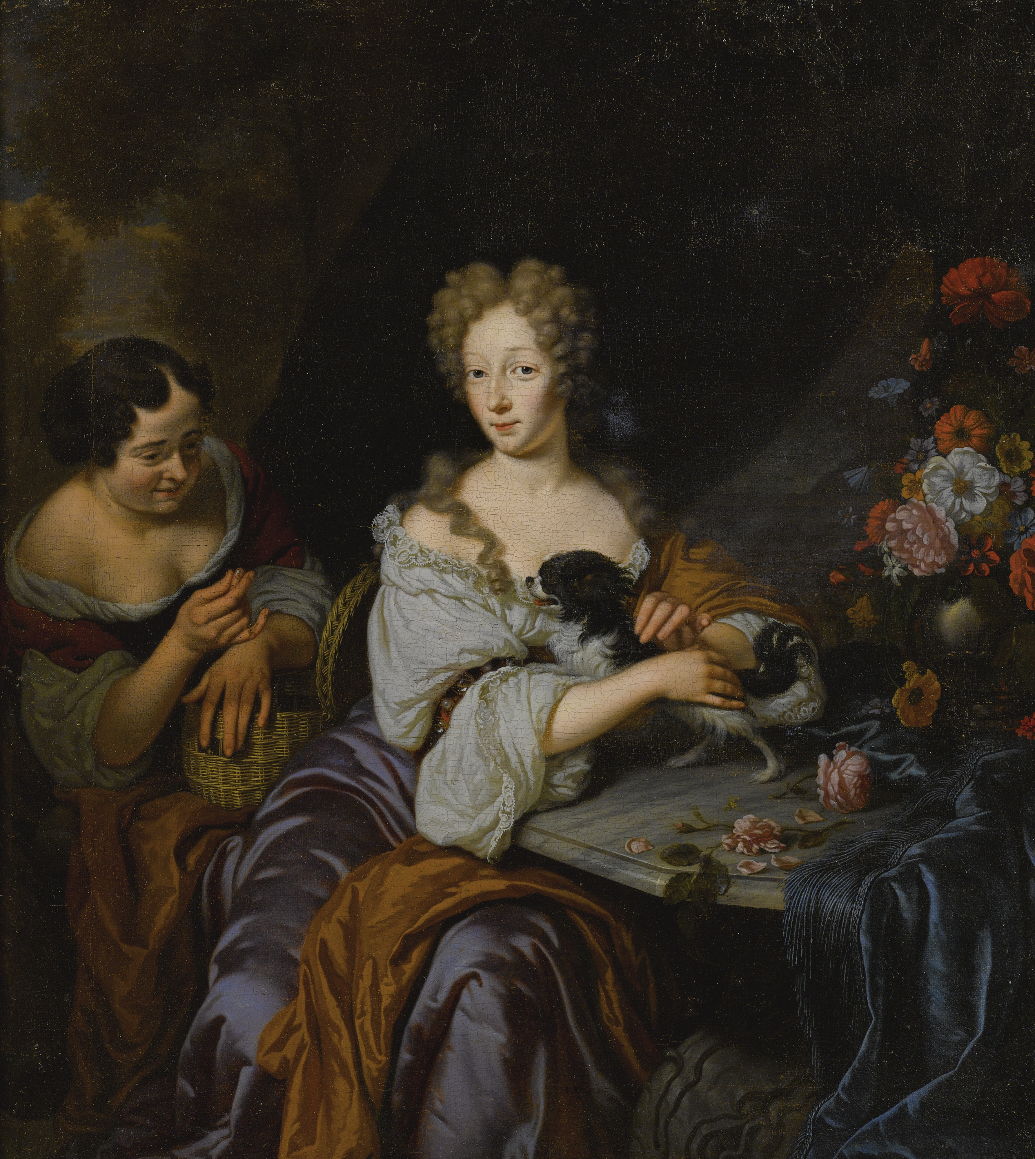 Portrait of a Lady with her dog and a maid